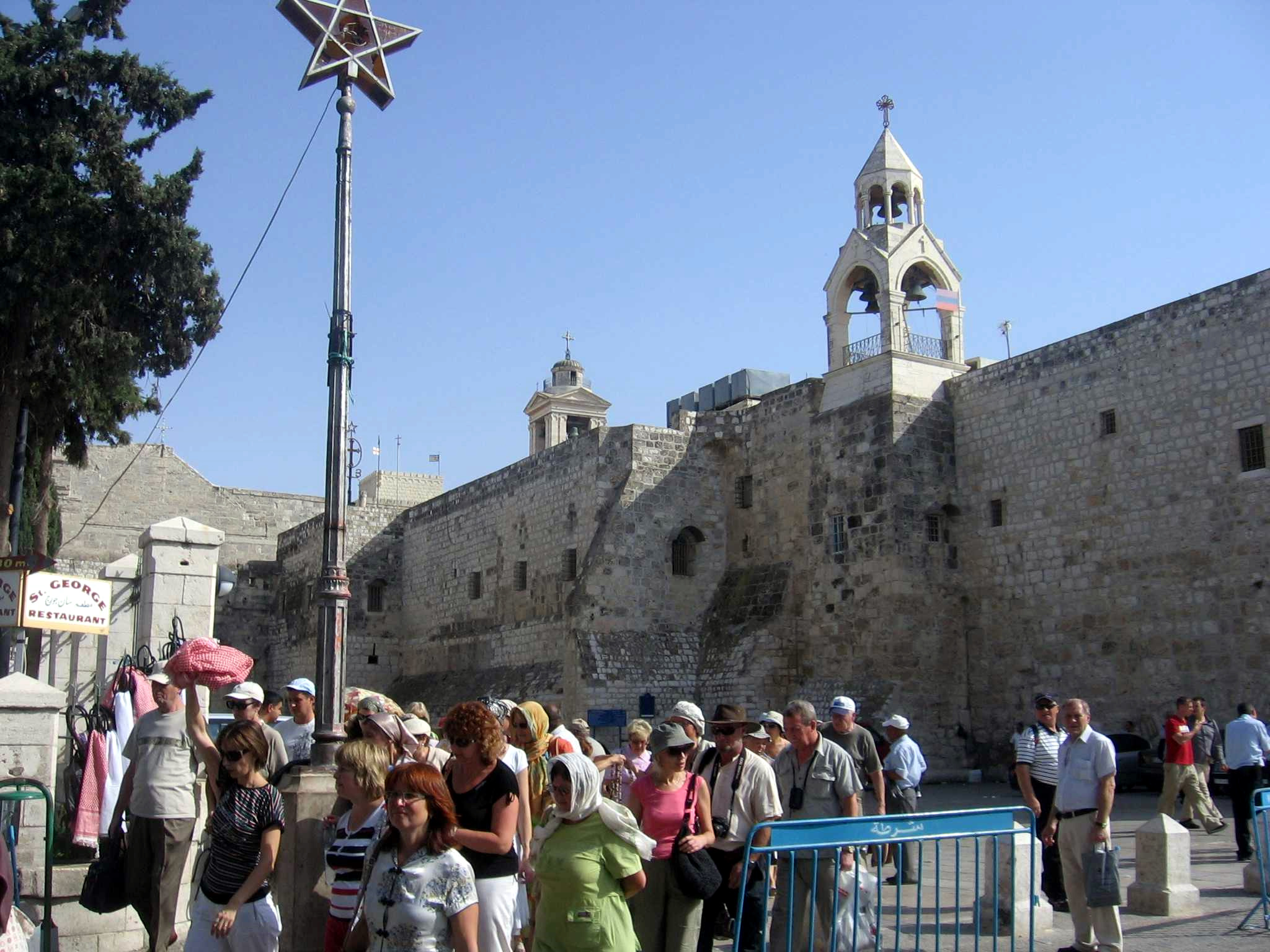 Bethlehem, basilica of Nativity in Holy Land, outside